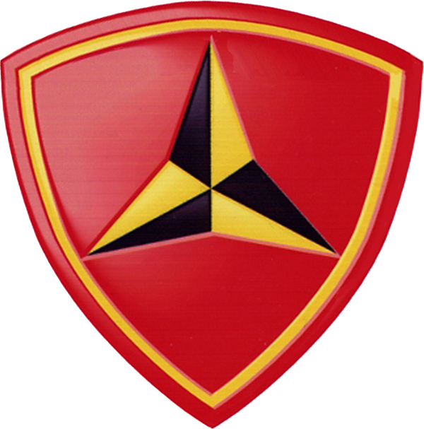 "The 3d Marine Division shoulder patch worn during World War II is in scarlet and gold, the official colors of the Marine Corps, and consists of a scarlet triangular shield with a narrow gold line near the outer edge. In the center of the shield is a gold and black caltrop, an ancient military instrument with four metal points so disposed that any three of them being on the ground the other projects upward, thereby impeding the progress of the enemy's cavalry. Literally. Don't step on me! Also the three visible points of the caltrop represent the division number. This insignia was authorized in August 1943. In 1947, the wearing of unit shoulder patches by all Marine Corps units was discontinued." - The 3d Marine Division And Its Regiments (1983)